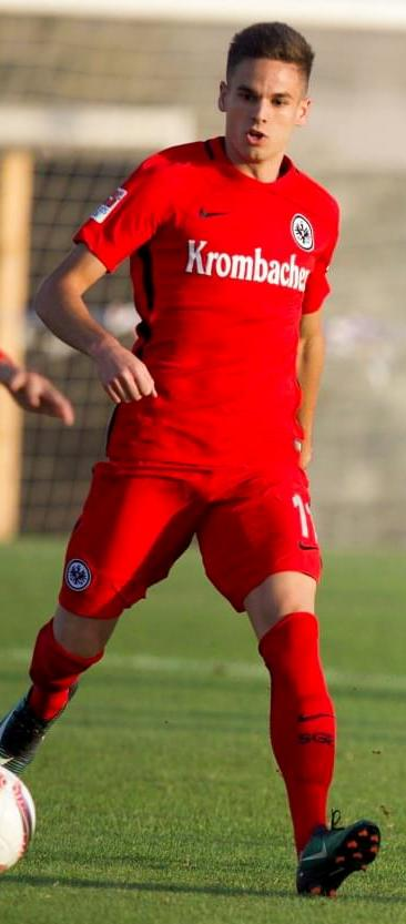 Mijat Gaćinović